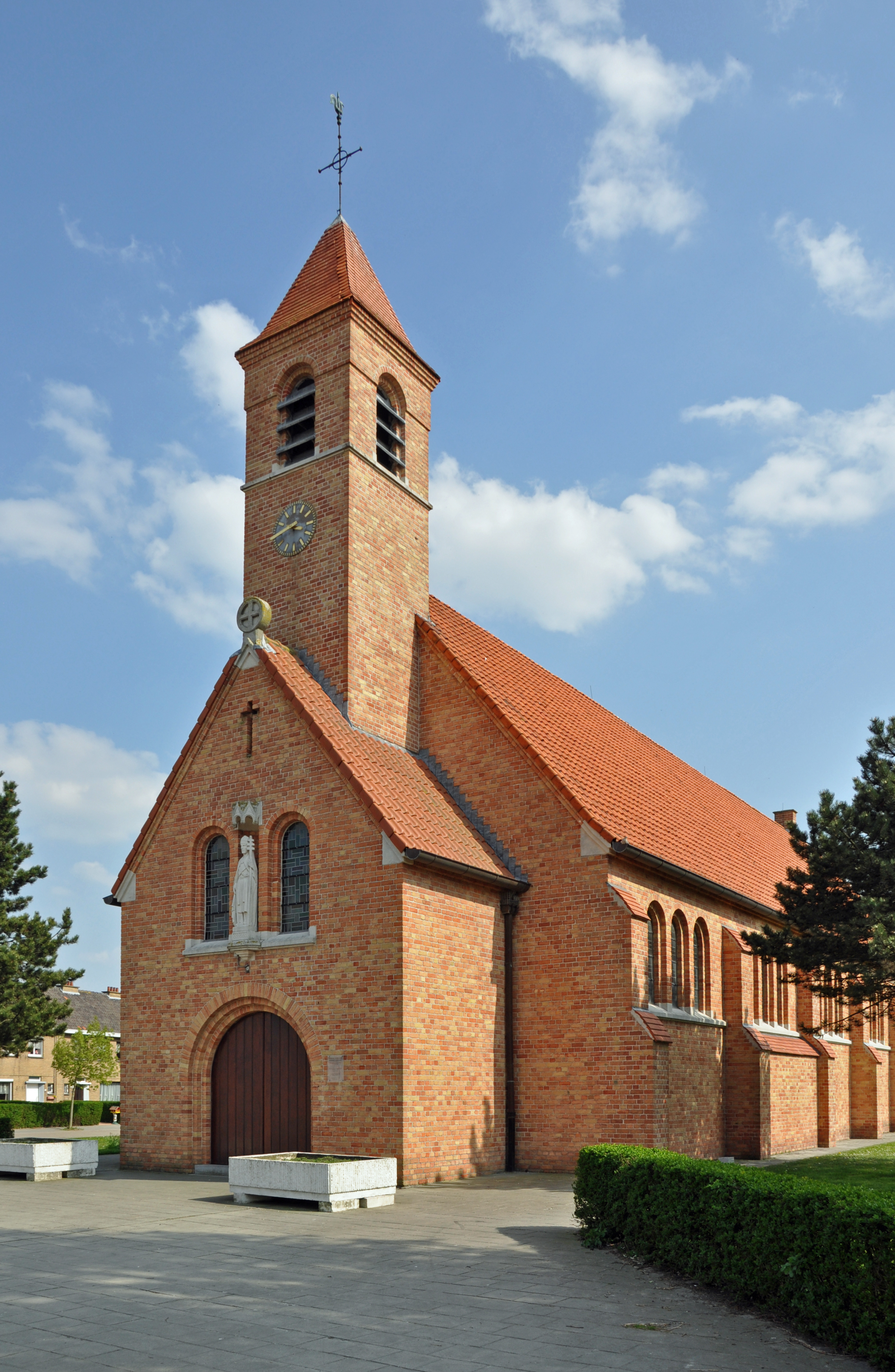 Zwankendamme (Bruges, Belgium): Saint Leo the Great church